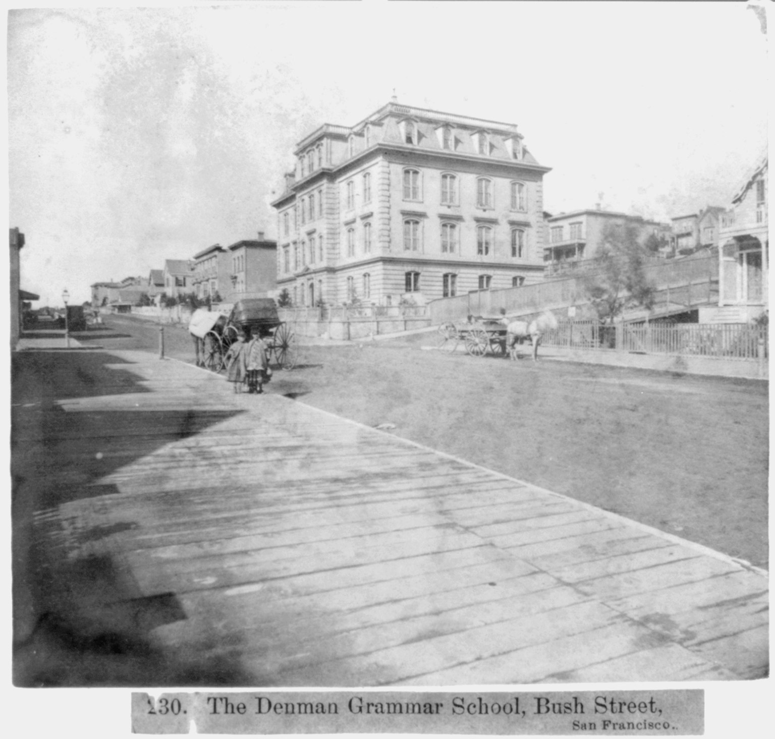 Title: The Denman Grammar School, Bush Street, San Francisco Abstract/medium: 1 photographic print : half stereograph, albumen.